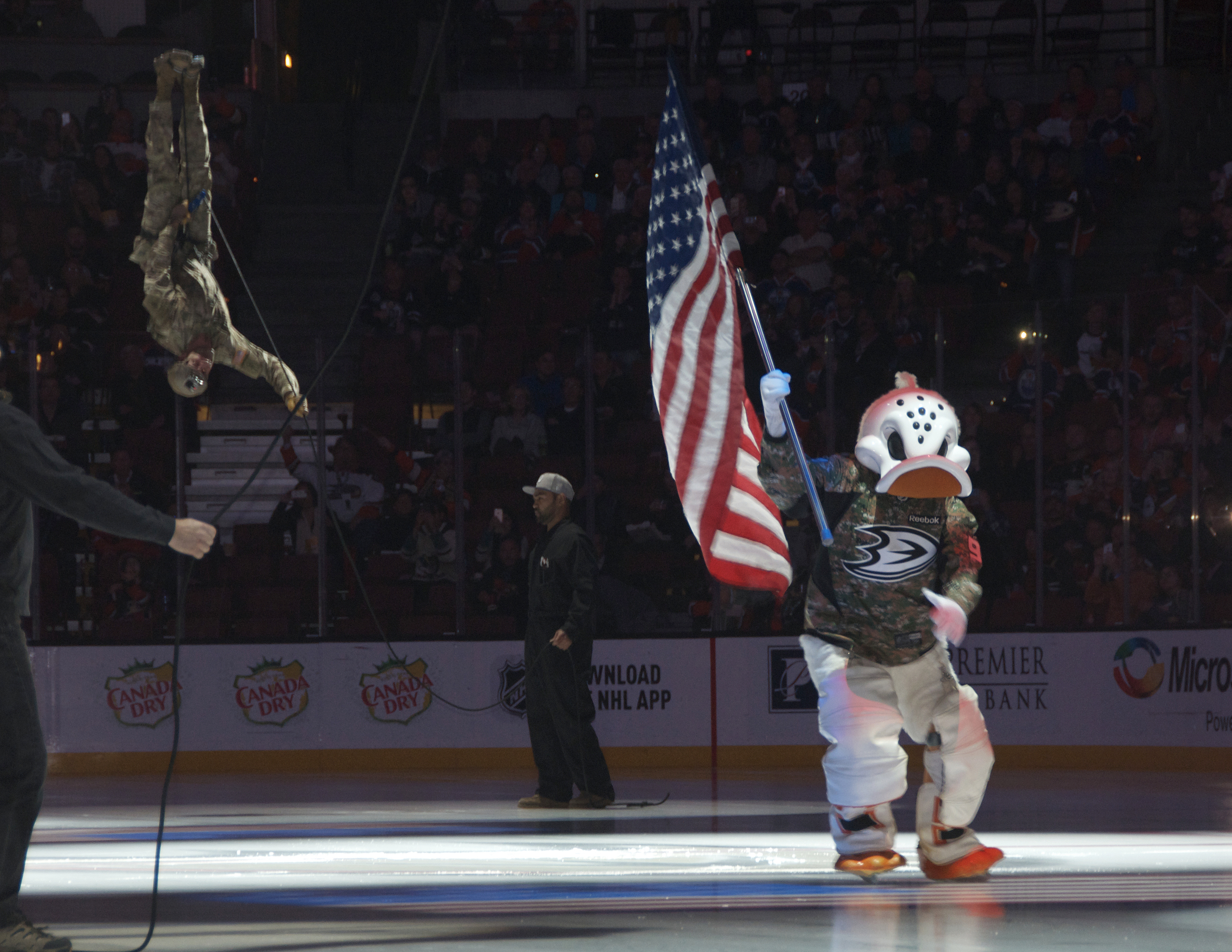 A soldier from the Cal Guard's Company A, 5-19th Special Forces Group, rappels from the rafters of the Honda Center alongside Wild Wing, the Anaheim Ducks' mascot, during a special Veterans Day tribute. Los Alamitos-based Alpha Company later gave Wild Wing a ride around the ice in a tactical vehicle, and a Los Alamitos-based 9th Civil Support Team robot dropped the ceremonial first puck, among other military-themed activities that thrilled the crowd. Unit: California National Guard